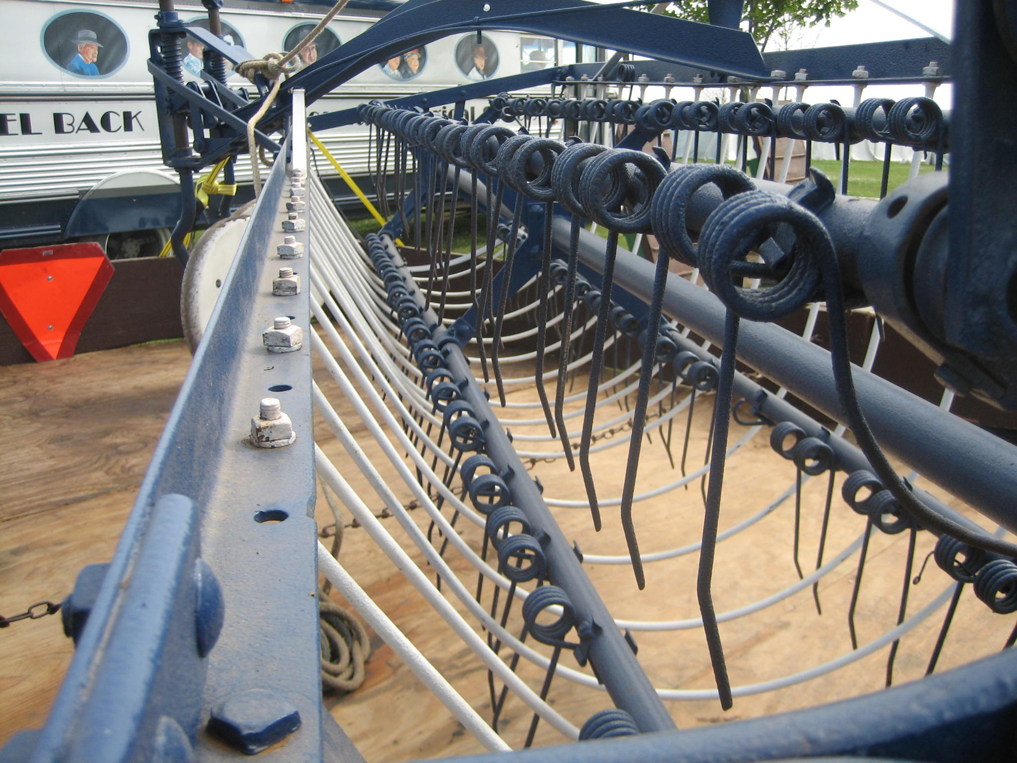 A four bar cylinder side delivery rake manufactured by International Harvester Company between 1939-1948.